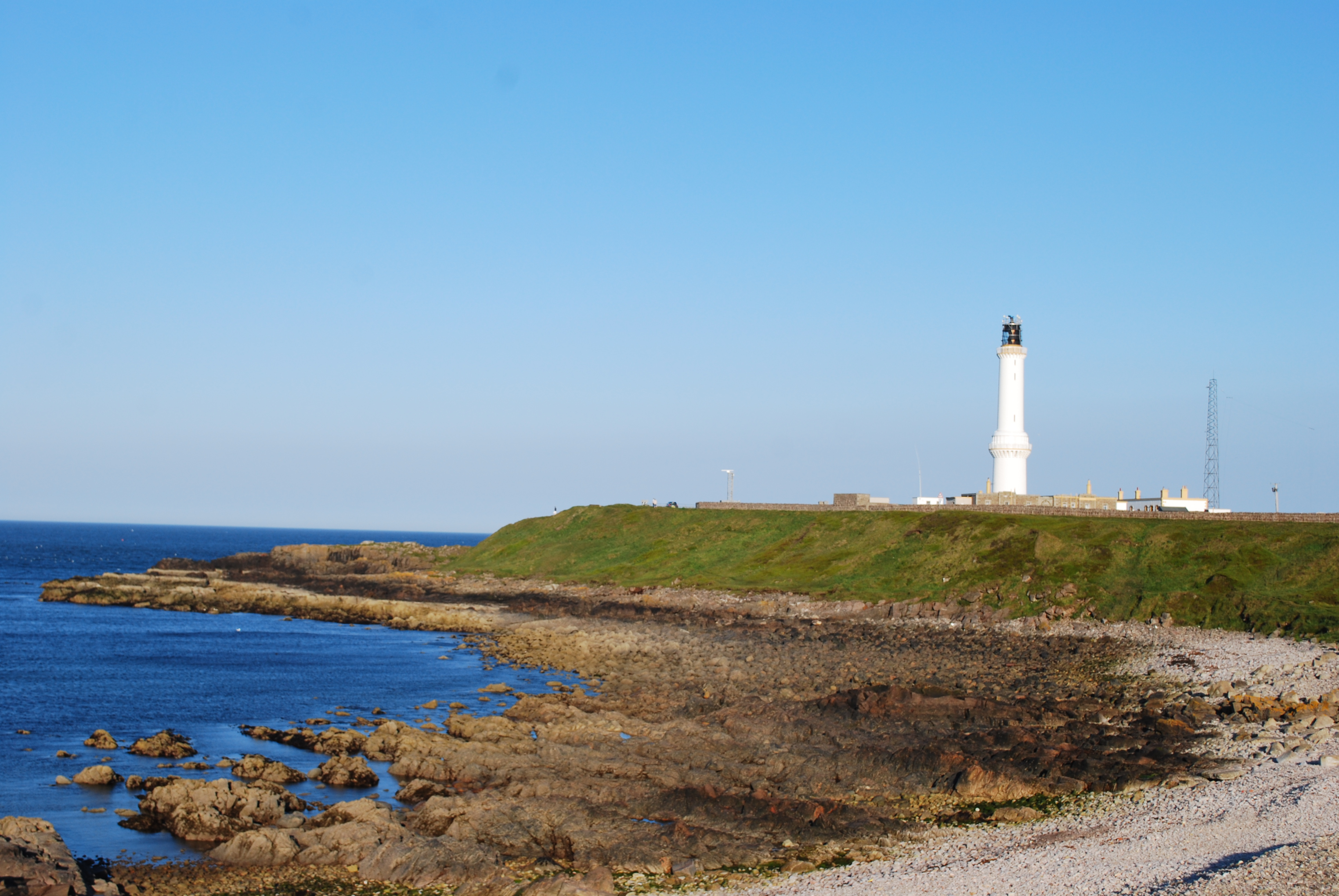 Aberdeen Coast